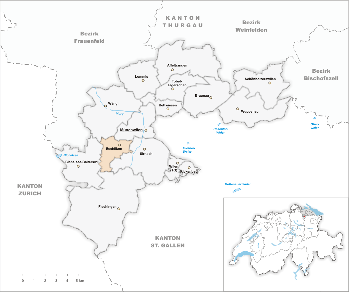 Municipality Eschlikon